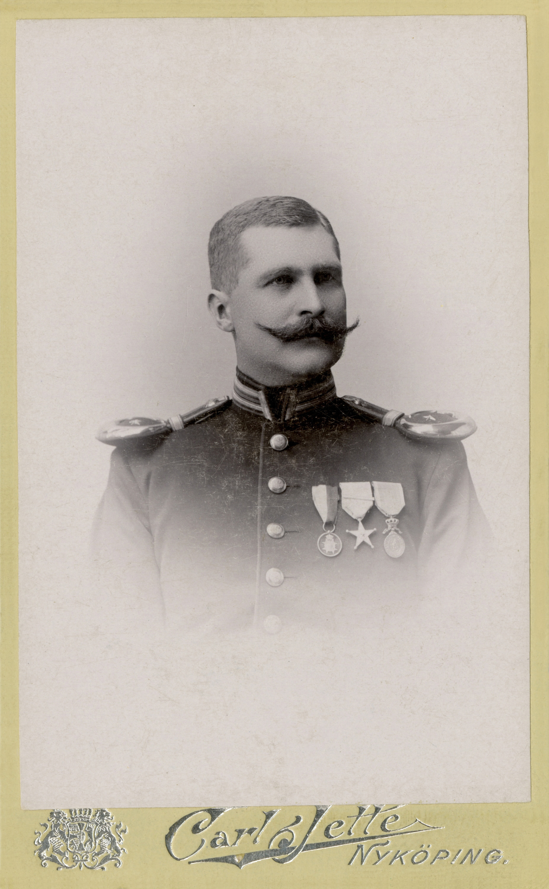 Axel Svinhufvud (1867-1939) - Swedish military officer and fire chief. Photo from the Swedish Army Museum archive.